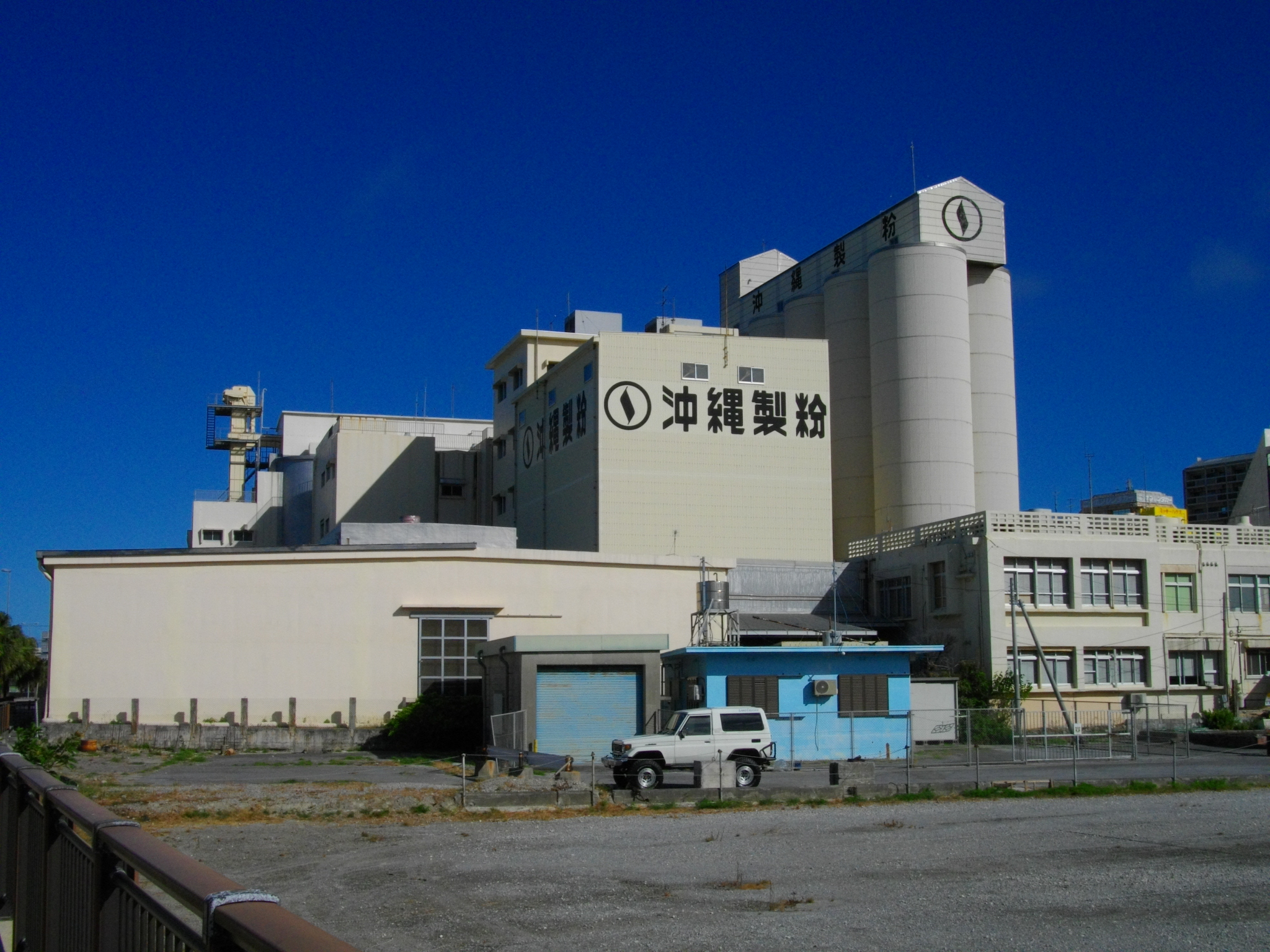 Okinawa Flour Milling Head Office